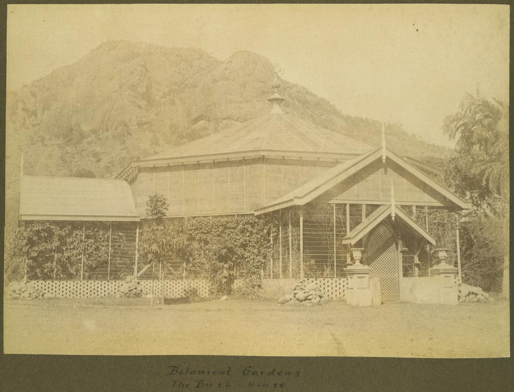 Bush House at the Townsville Botanical Gardens, ca.1900. Screened in bush house with hexagonal roof with the backdrop of Castle Hill.